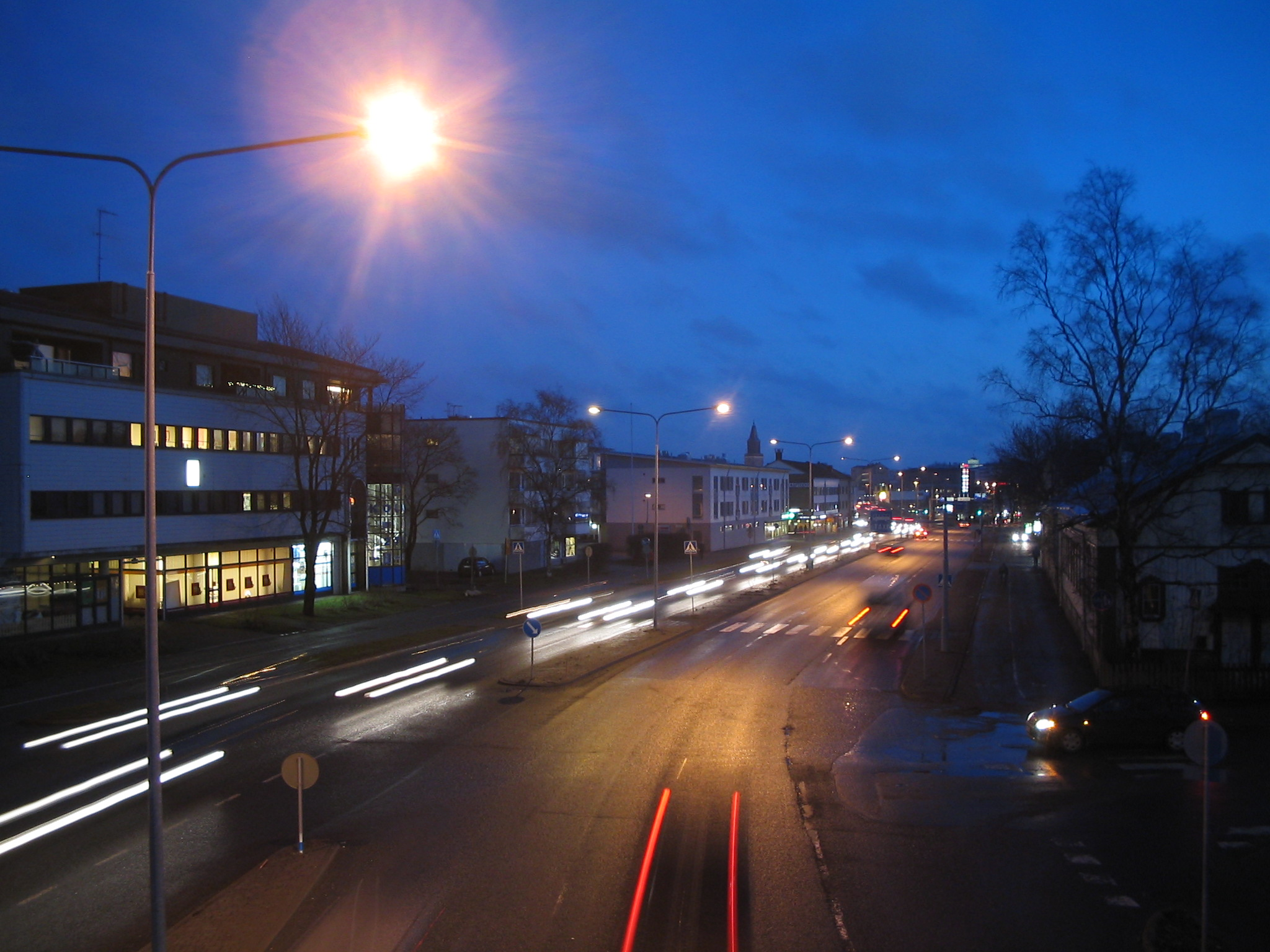 Street Satakunnantie in Turku